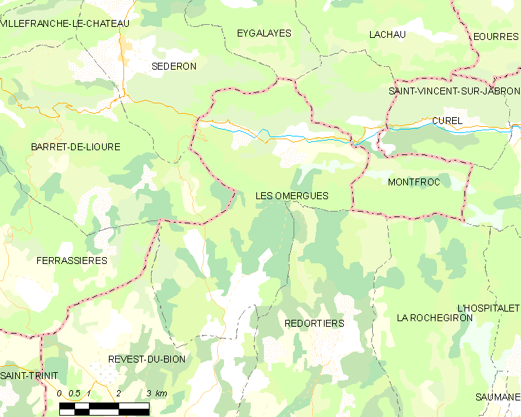 Map commune FR insee code 04140.png Légende